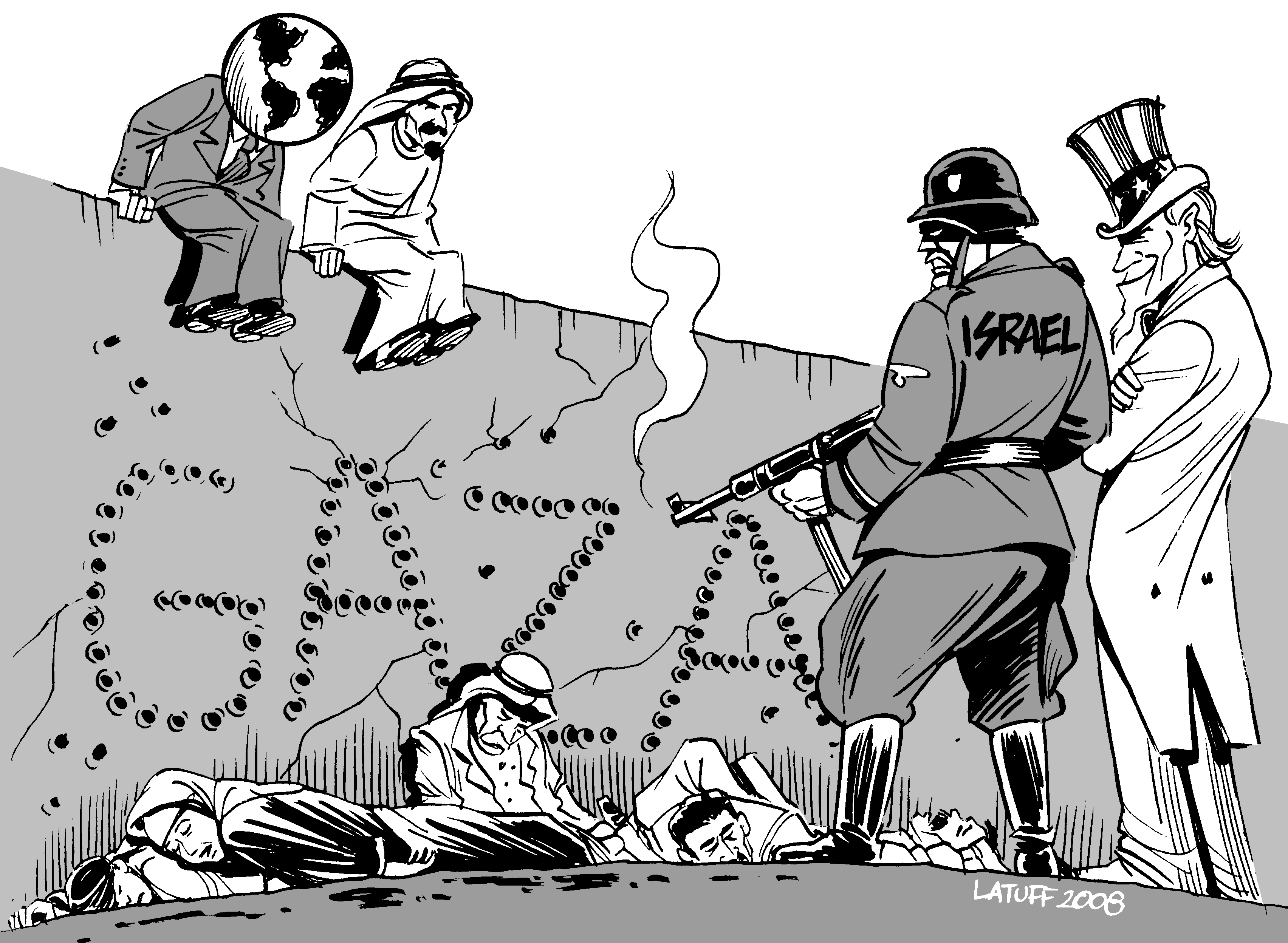 "Gaza Massacre!" by Carlos Latuff. Editorial cartoon: Israel hammers Gaza for fourth day...